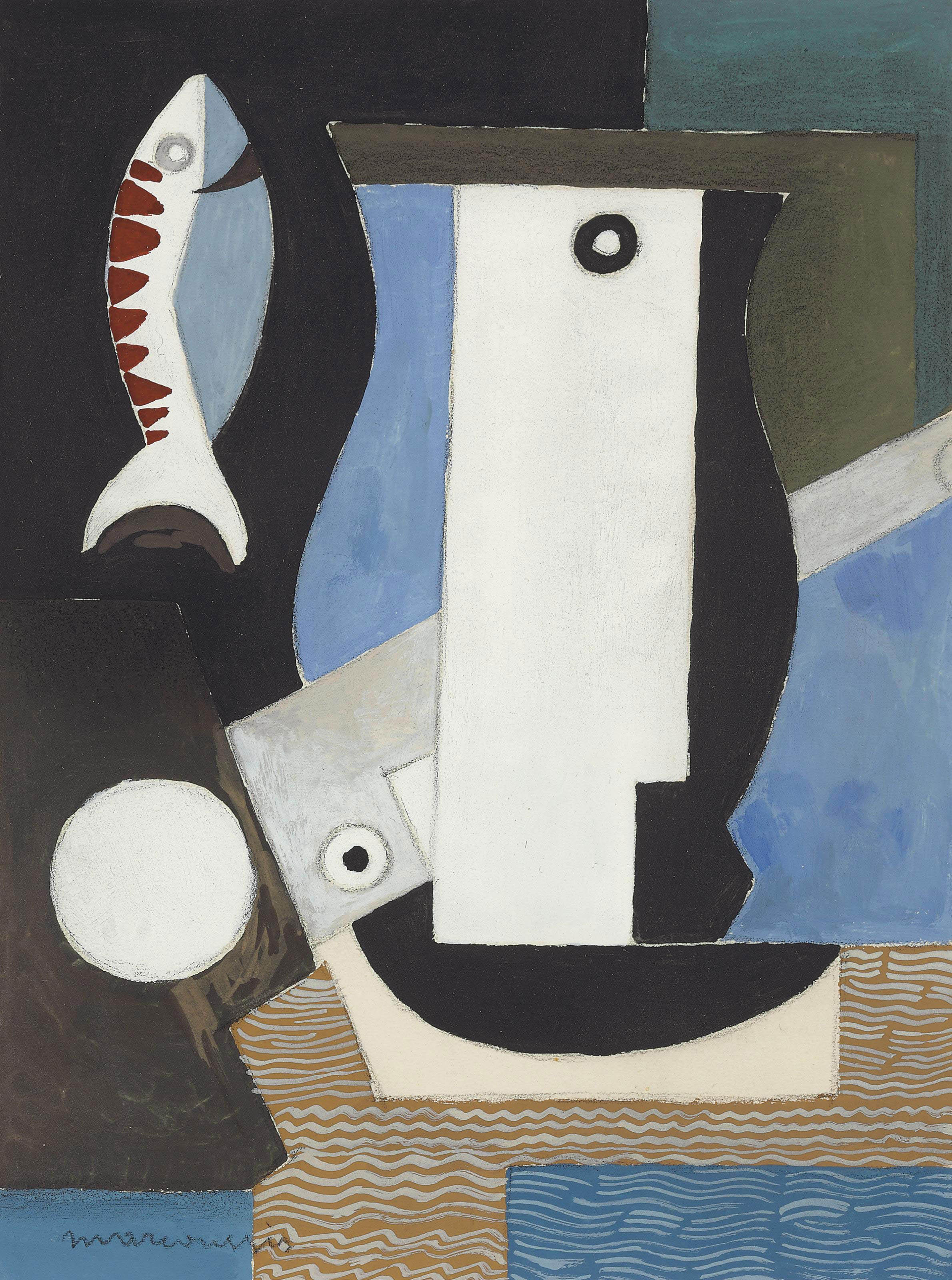 Composition cubiste au portrait, poisson et clair de lune. Signed Marcoussis. Gouache over pencil on paper, 20 x 14.3 cm